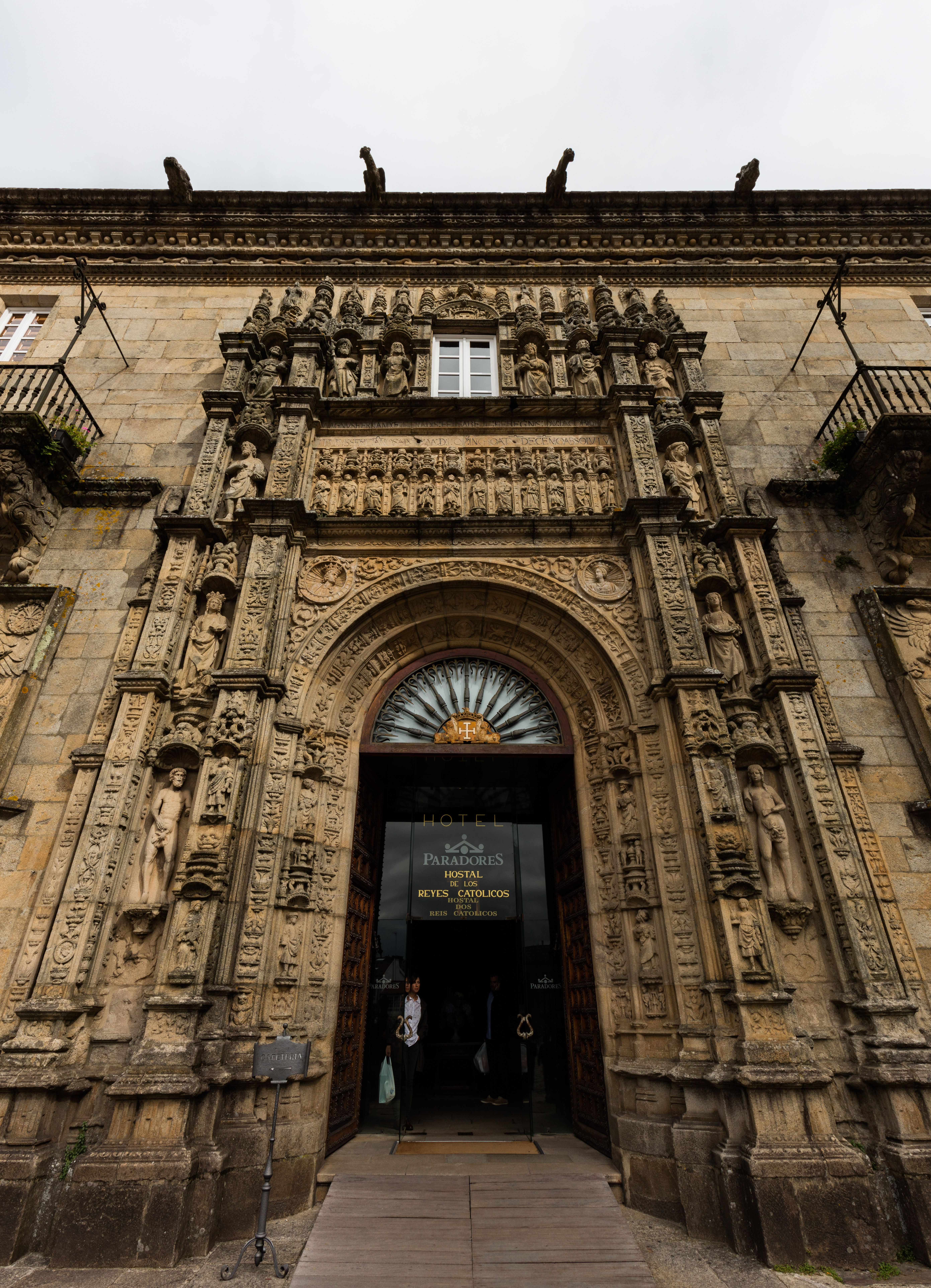 Hostal of the Reyes Católicos, Santiago de Compostela, Spain